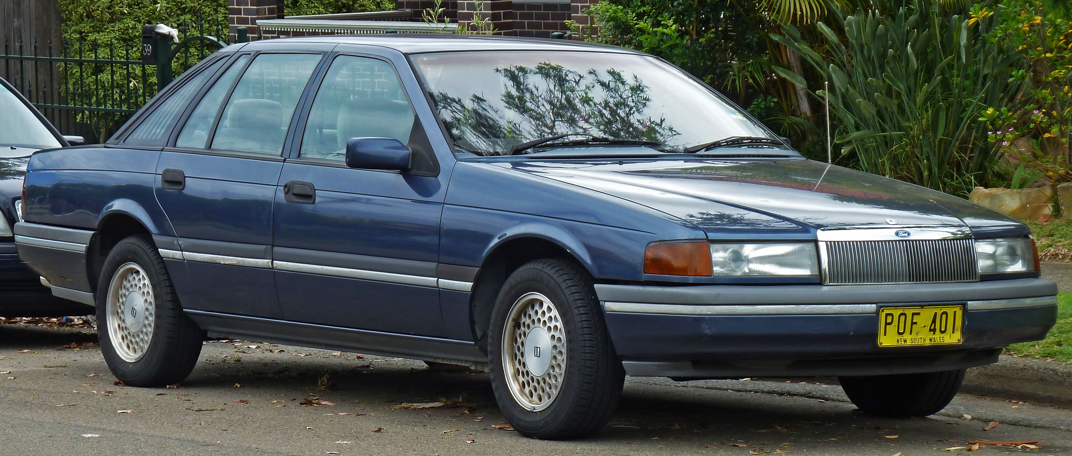 1989–1991 Ford DA II LTD sedan. Photographed in Ramsgate, New South Wales, Australia.